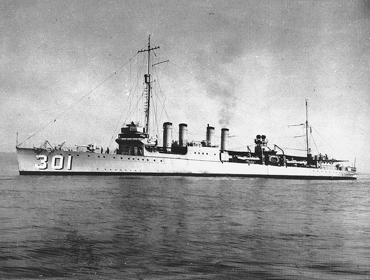 The U.S. Navy destroyer USS Somers (DD-301) underway at very low speed, circa 1923-1930.